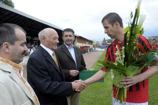 Jenő Buzánszky is 85 years old. Here is the celebration his birthday and was named of stadium by his name. From left: Tamas Szauter president of FC Dorog, Jeno Buzanszky, Istvan Mayer vice president of FC Dorog and Szabolcs Farago coach of football players.